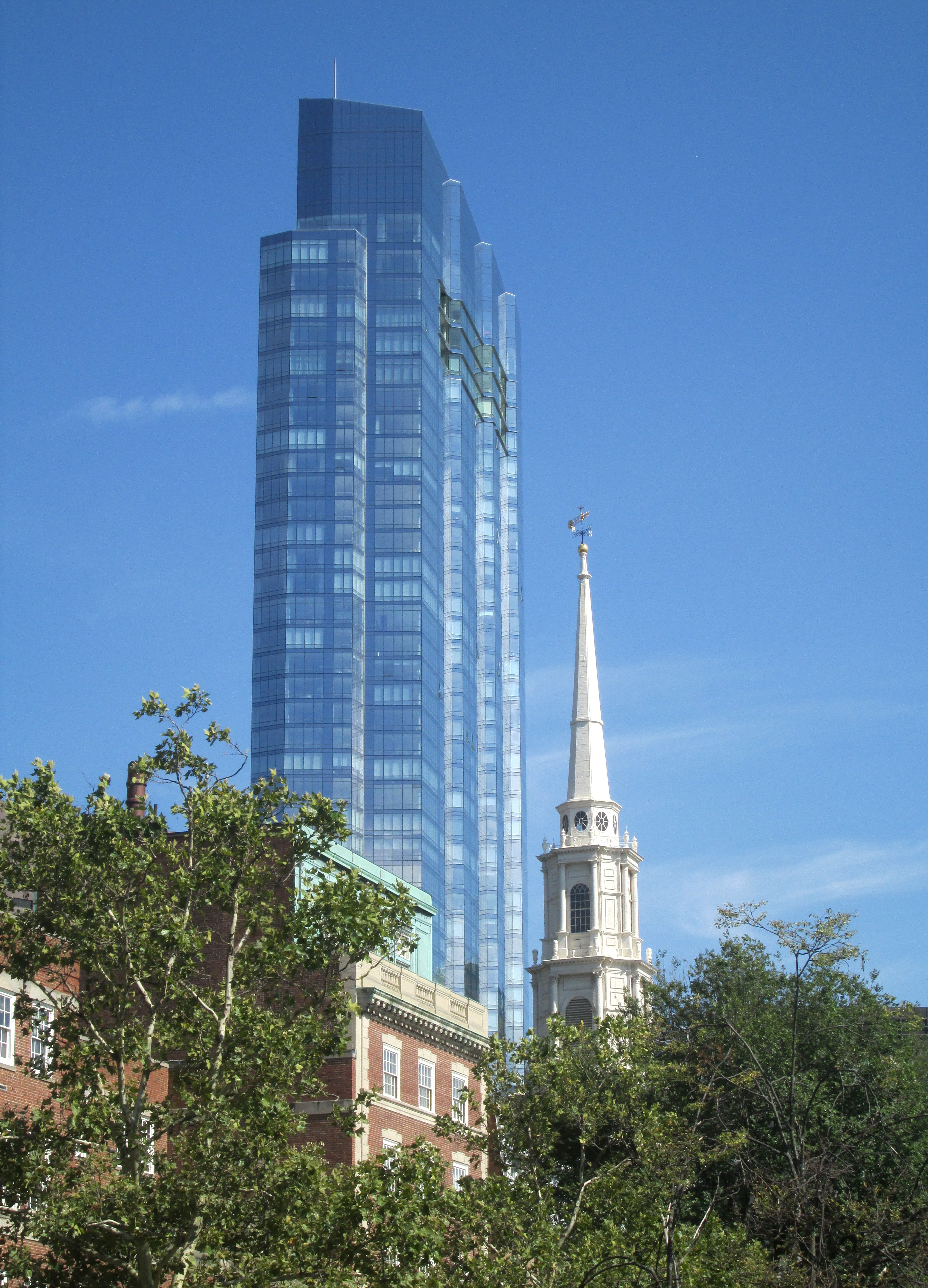 The Millennium Tower, located at 1 Franklin Street between Washington and Hawley Streets in Downtown Boston, Massachuseets, is a 60-story residential skyscraper built from 2013-2016 and designed by Blake Middleton of Handel Architects.The Park Street Church, located at 1 Park Street at the corner of Tremont Street in Boston, Massachusetts, is an Evangelical Congregational church that was built in 1809, and was designed by Peter Banner. It is a designated stop on the Freedom Trail.